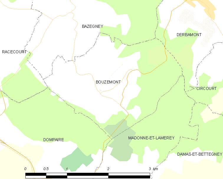 Map of French municipality Bouzemont